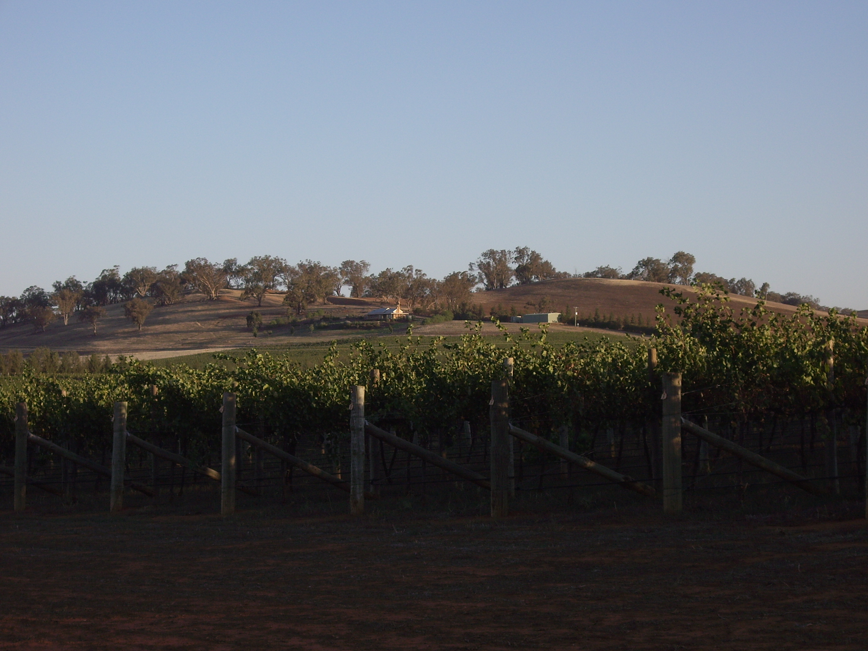 Photograph taken by VirtualSteve. Full catalogue of all my images uploaded to Wikipedia available here Images